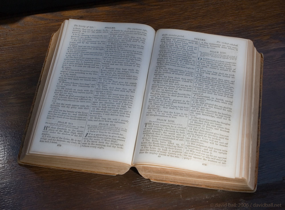 An Antebellum era (pre-civil war) family Bible dating to 1859.